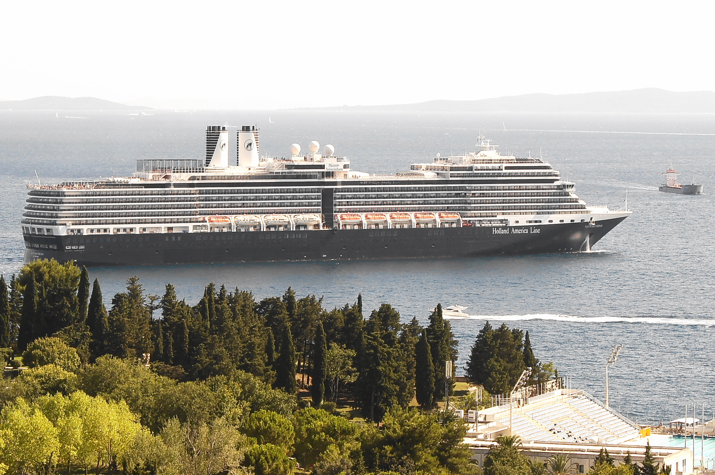 Nieuw Amsterdam (IV), (ship, 2009), (IMO 9378450), at Split, Croatia, 2011-07-30. Heaving up the anchor.